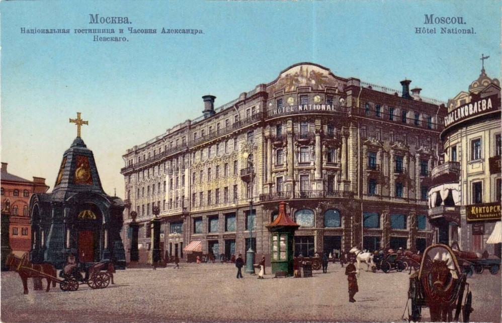 Moscou; Hôtel National pre-revolutionaty russian postcard of "hôtel National"